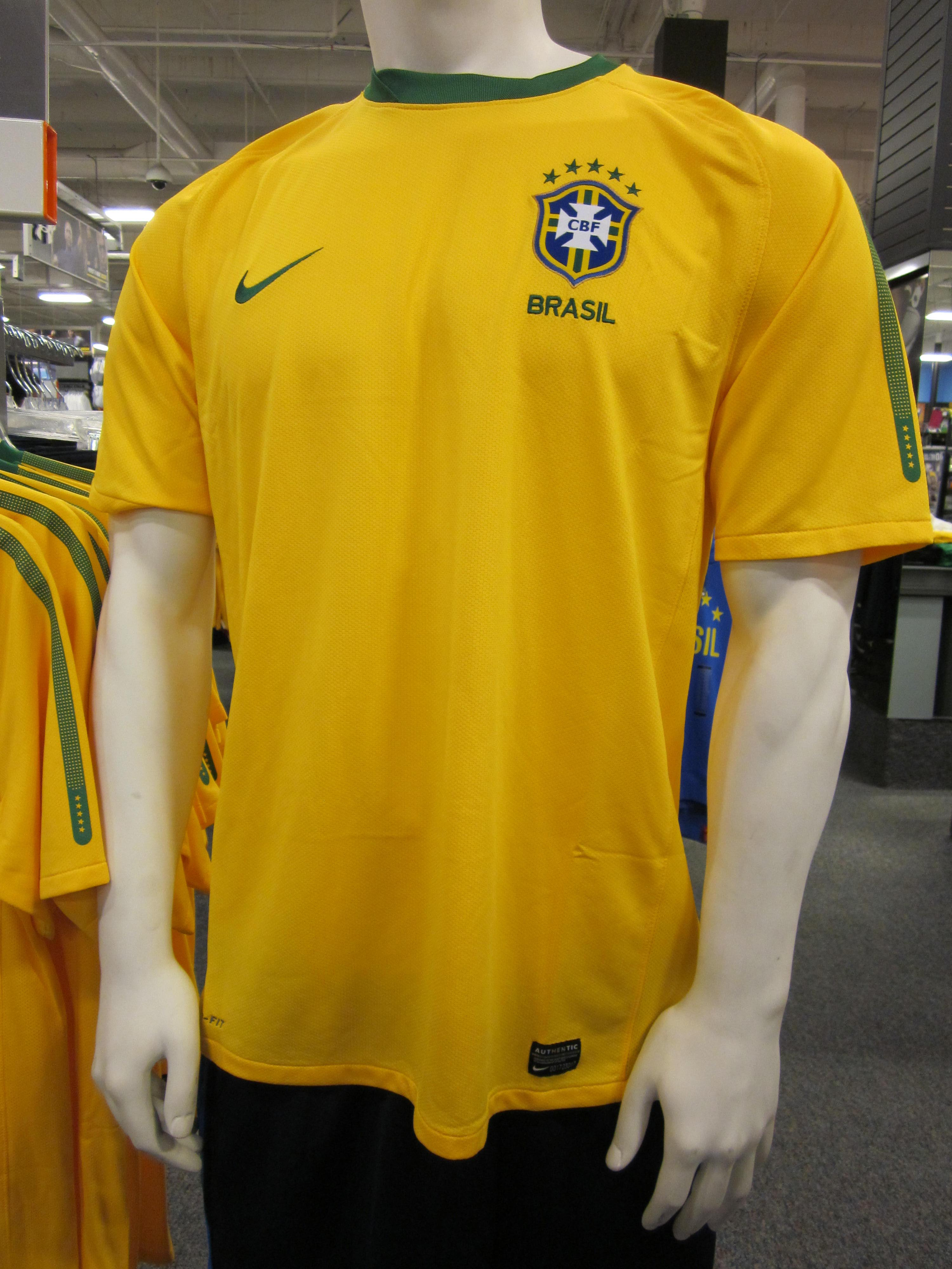 A Nike Brazil national football team home jersey.